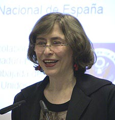 On February 24, 2010, Dr. Azar Nafisi lectured at the National Library of Spain